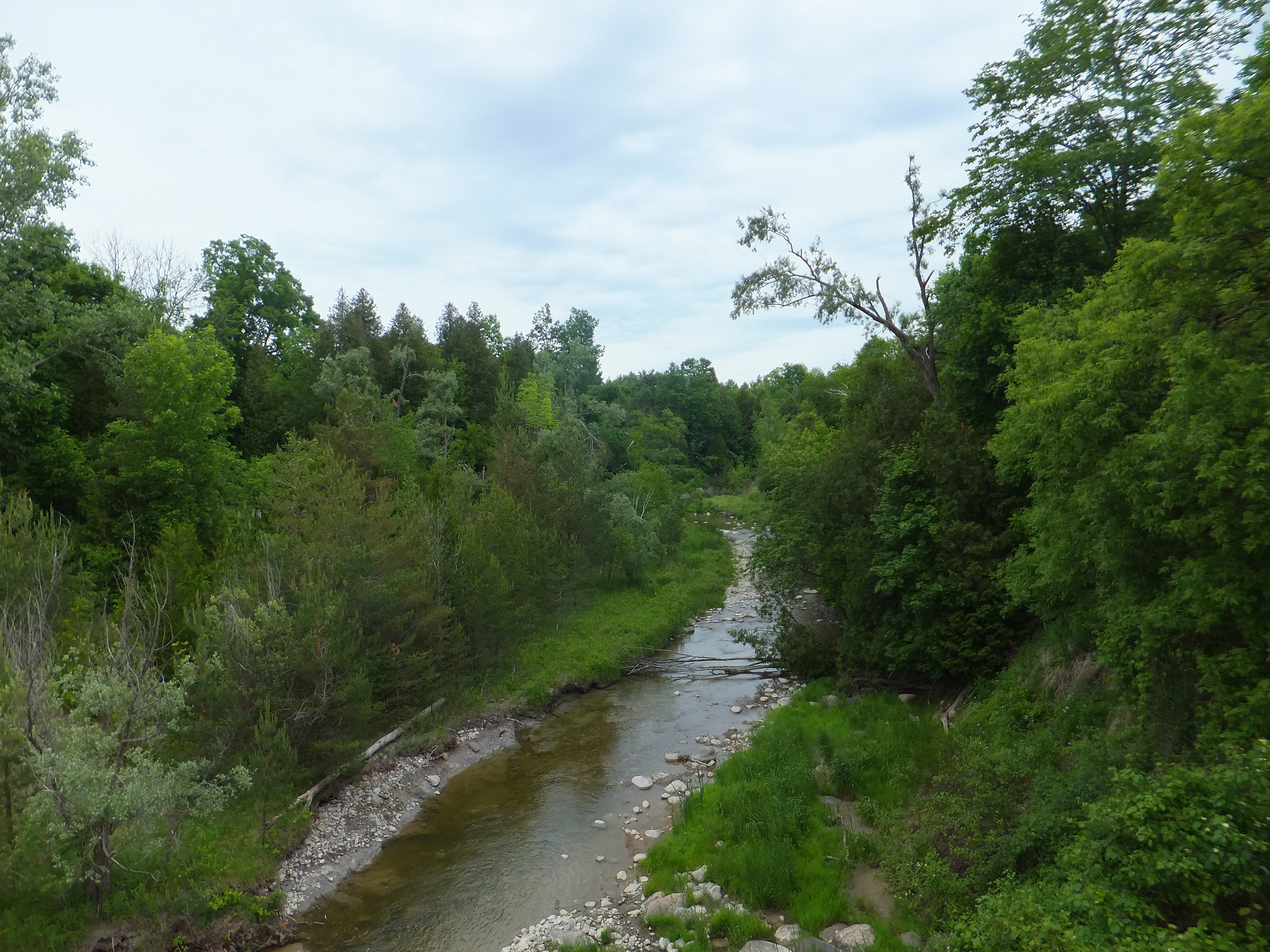 Little Rouge Creek from the top of the Cedar Trail on Meadowvale Dr. Rouge Park, Toronto, Canada